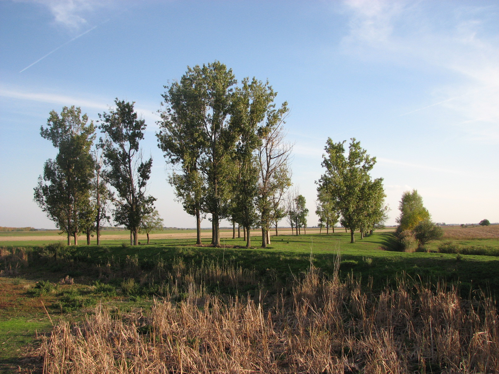 The landscape of the Southern part, called Zajgató of the town of Hajdúdorog, Hungary. Beyond the trees you can find a huge meadow.